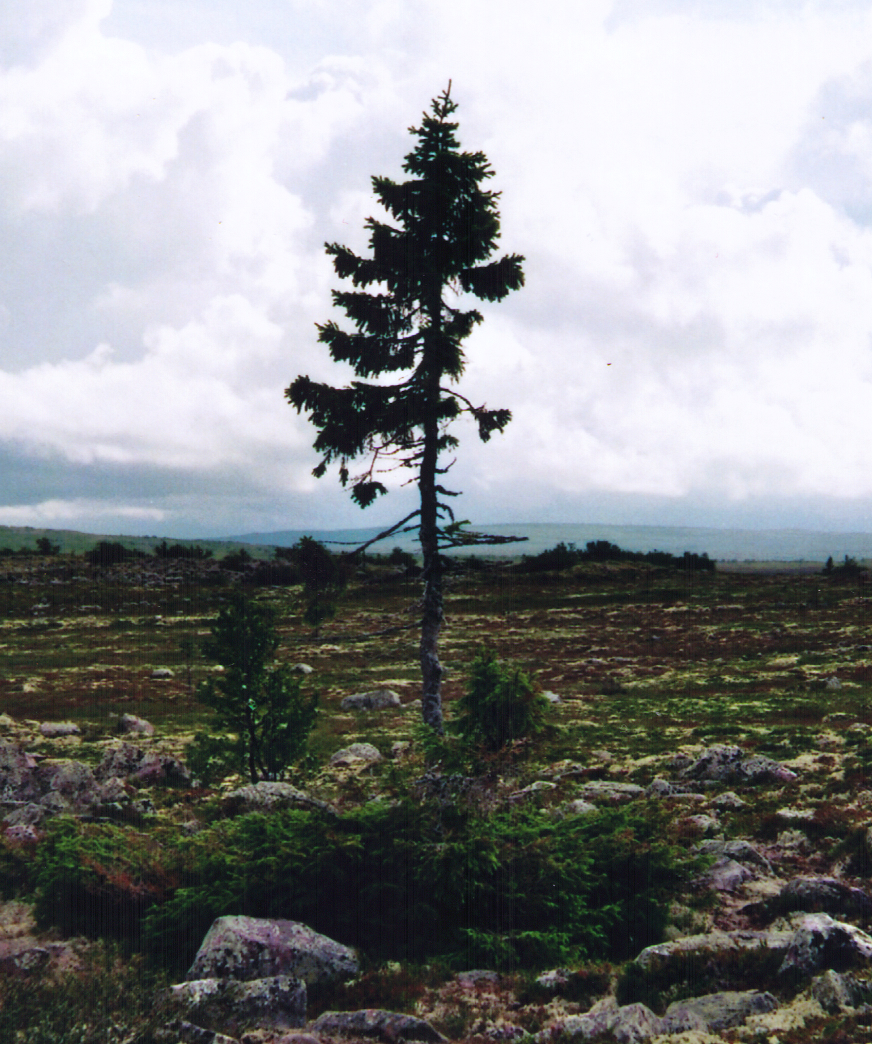 Old Tjikko, the oldest tree in the world